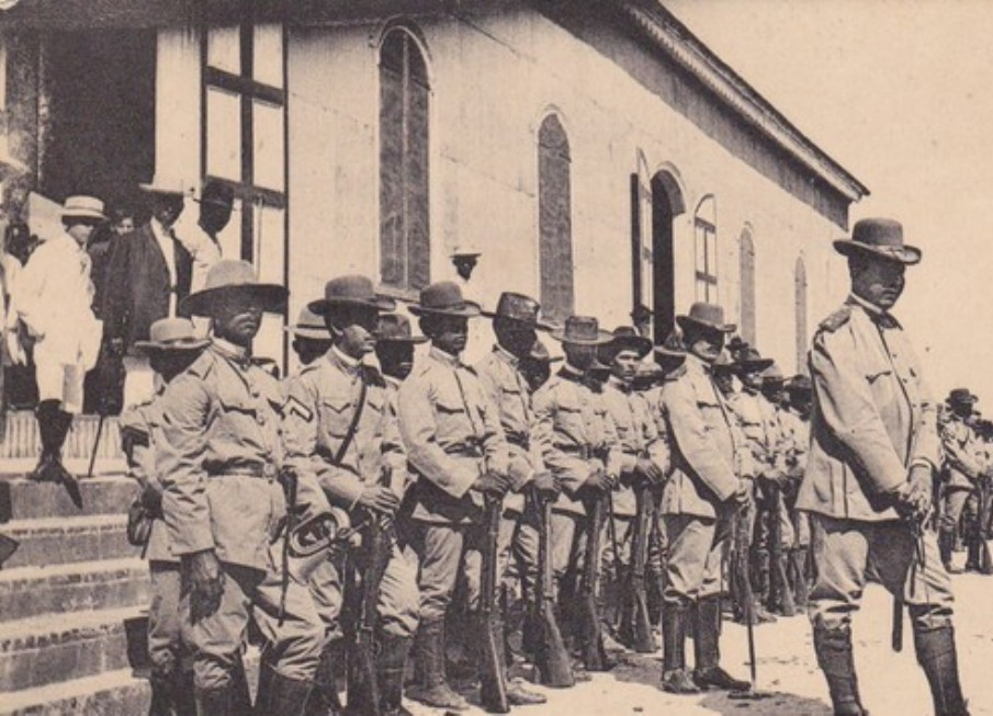 Members of the Guardia republicana in Puerto Plata, c. 1910. The Guardia republicana had been set up by Dominican President Caceres Vasquez in 1907 in an attempt to replace the private armies of regional military leaders. Cropped from a postcard issued c. 1910.